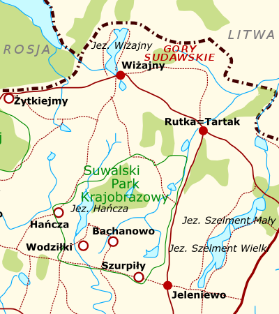 Góry Sudawskie (Sudawskie Mountains), northern Suwalszczyzna.